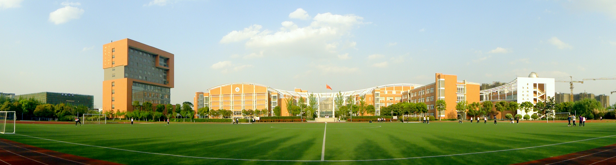 Panorama of No.2 High School of East China Normal University （taken by Duyi Han)